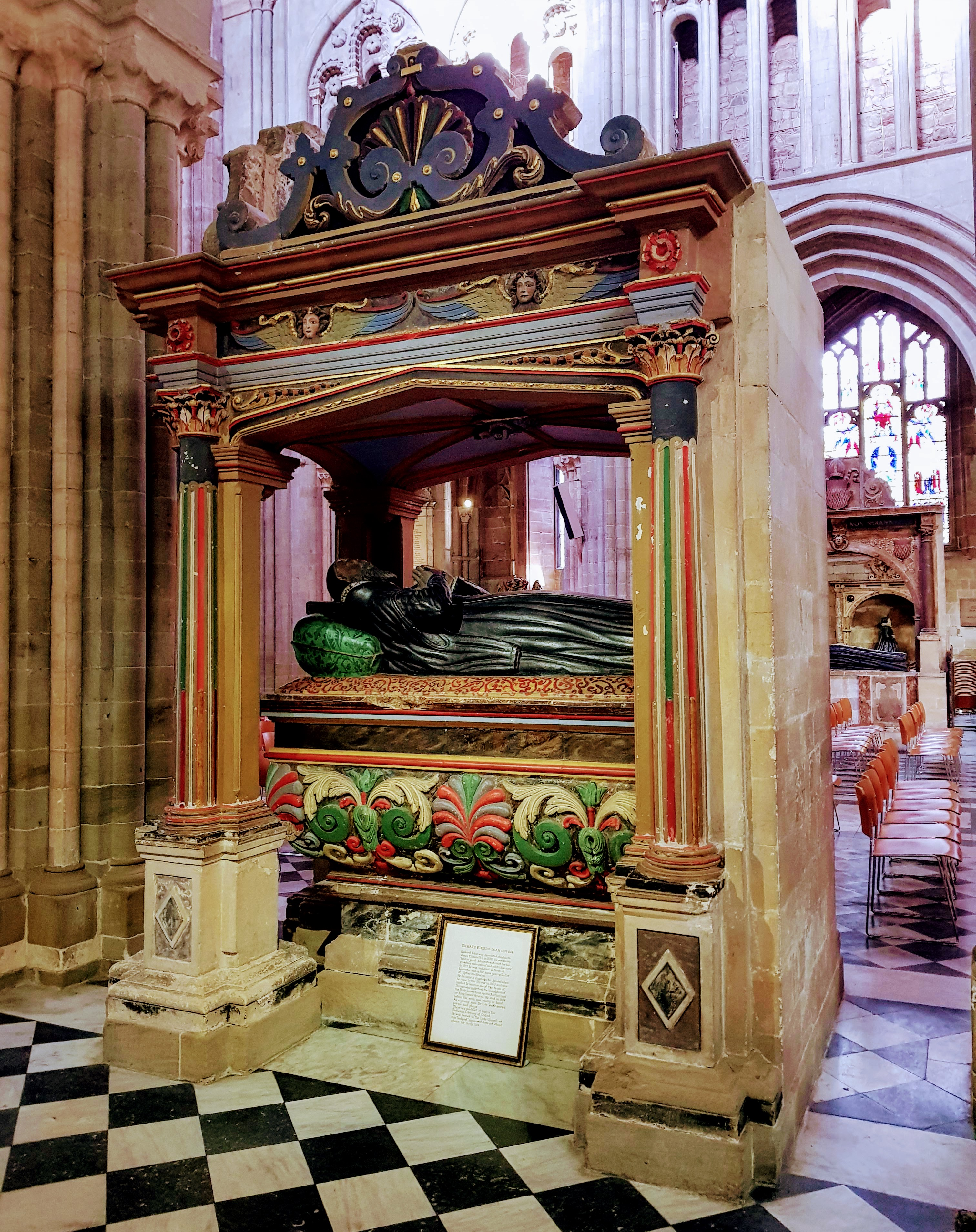 Worcester Cathedral, monument to Richard Edes (1555–1604), Dean of Worcester between 1597 and 1604, which was produced on the instructions of his wife Margaret. Edes went to Christ Church College, Oxford. He was made one of Queen Elizabeth I’s chaplains. He was famous for his preaching and conversation. He would have been involved in the Oxford University group appointed by King James to produce a new translation of the Bible. Unfortunately, he died in the same year before he could do much for this enterprise. Besides Edes’ plays and poems, he made a description in Latin of a trip to the North of England with his friend Dr. Toby Matthew entitled Iter Boreale or Northern Journey. He also gave a sum of money to the Bodleian Library in Oxford. He was buried in the Lady Chapel of Worcester Cathedral. (